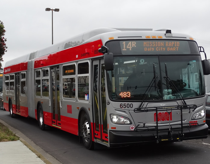 New Flyer XDE60 #6500 on Muni route 14R in August 2015